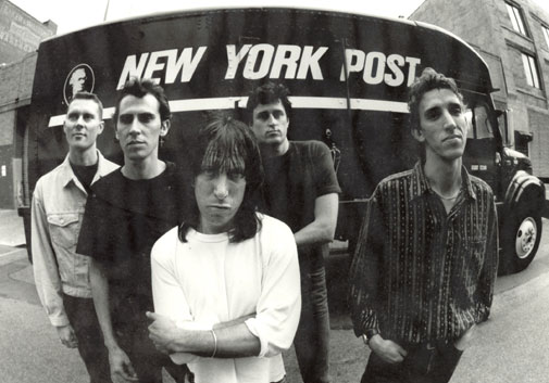 Original Line UP